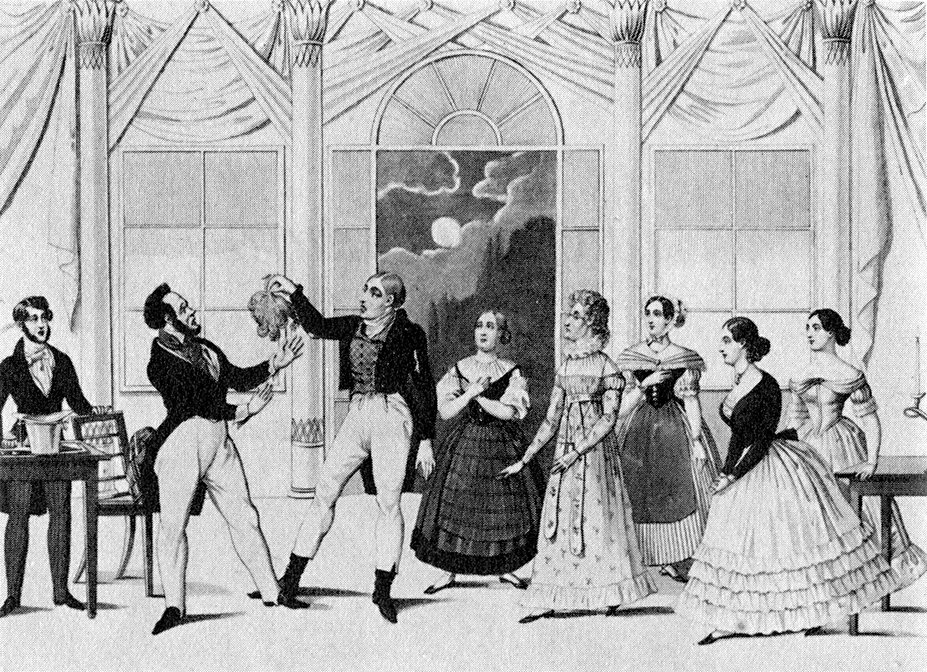 Illustration of Johann Nestroy's play "Der Talisman" (first performed December 16th 1840), from the Vienna Theaterzeitung, apparently depicting the climactic scene when the male lead removes his wig to show his red hair underneath. The older lady is wearing the old-fashioned ca. 1820 styles of her youth, while the younger ladies are clothed in what were no doubt considered to be much more up-to-date and becoming fashions in 1840 -- seen in high-fashion form in the case of the two non-servant women on the right, and in modified form appropriate to servants in the case of the two women behind the older woman. (From the point of view of the 21st century, the older woman's clothes seem more modern than the younger women's.)